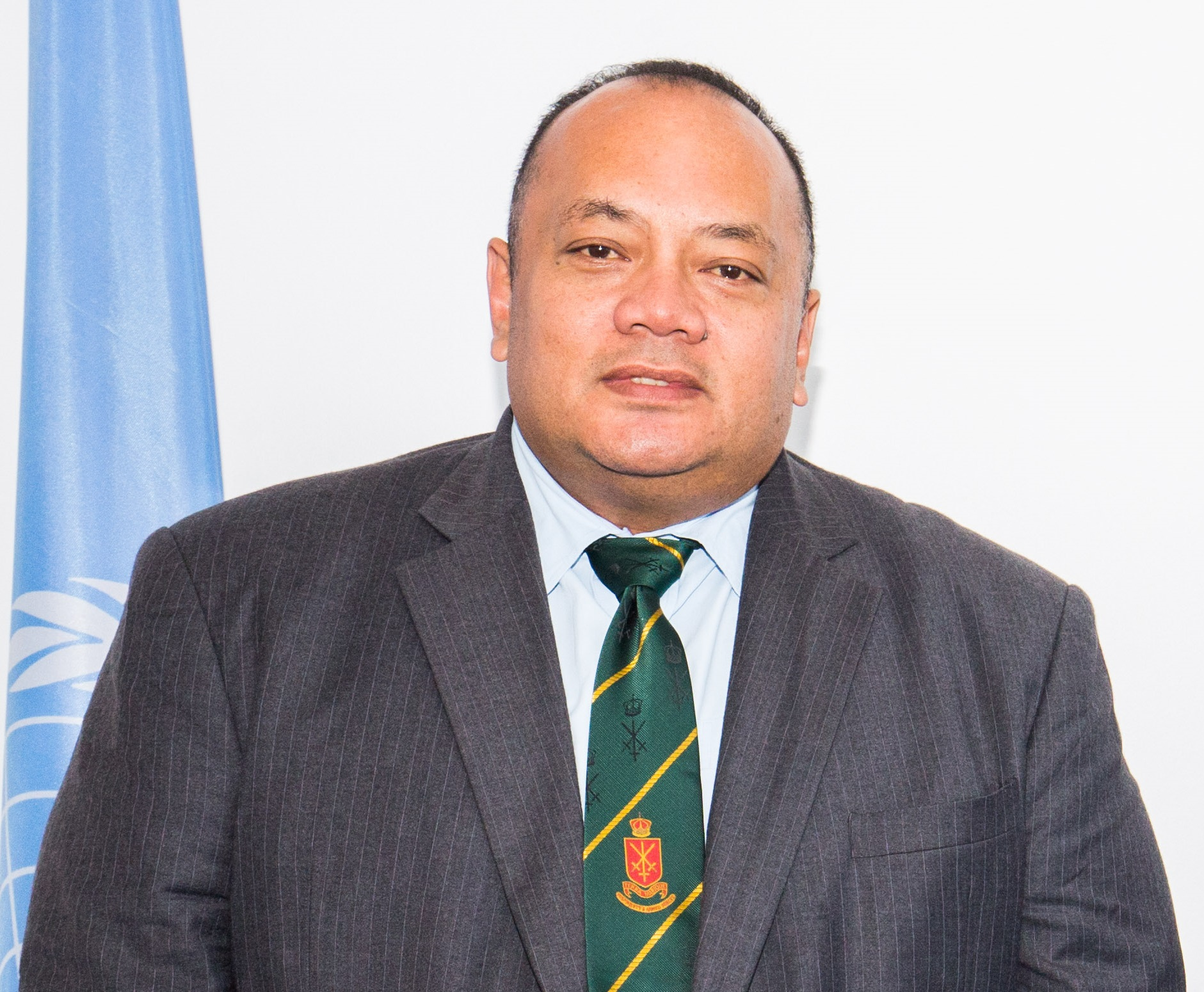 Siaosi Sovaleni, Tongan MP